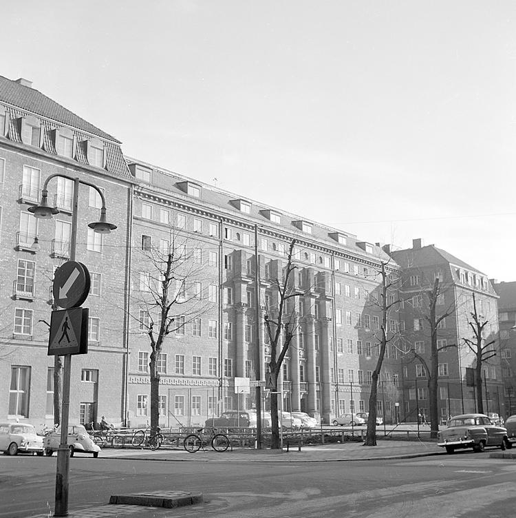 Nya Elementarskolan för Flickor - Ahlströmska skolan, Stockholm, built in 1926, Kommendörsgatan 31 A and B, Östermalm, kv. Brandvakten 7. The architect was the Swedish architect Albin Stark (1885-1960).Unknown nya elementarskolan för flickor - ahlströmska skolan, stockholm, byggd 1926, kommendörsgatan 31 a and b, östermalm, kv.brandvakten 7. arkitekt var albin stark (1885-1960). upphov: cramér, margareta (f. 1926). skapad: 27 november 1961. objektidentitet: fotonummer fö 26. publicerad av: stockholms stadsmuseum.